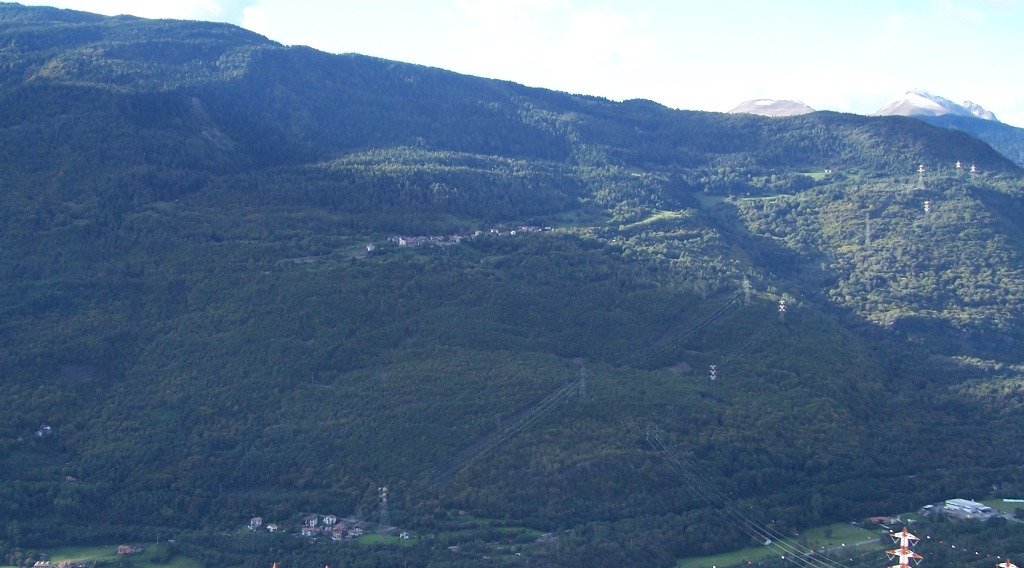 Loritto, Val Camonica